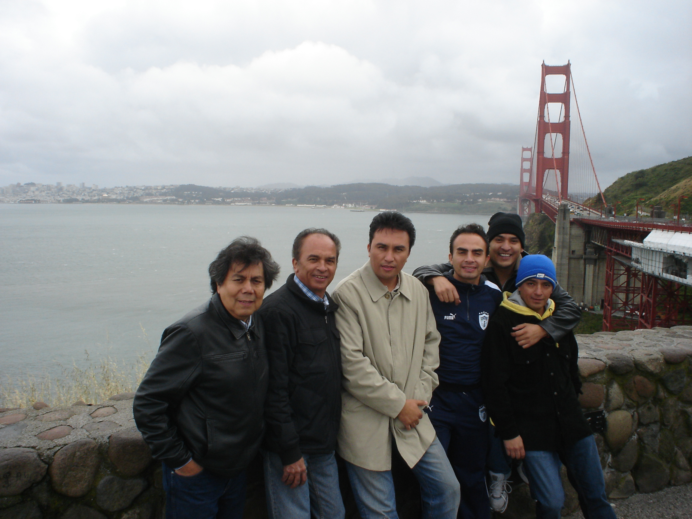 El grupo Mexicano LA TROPA LOCA de gira en E.U.A